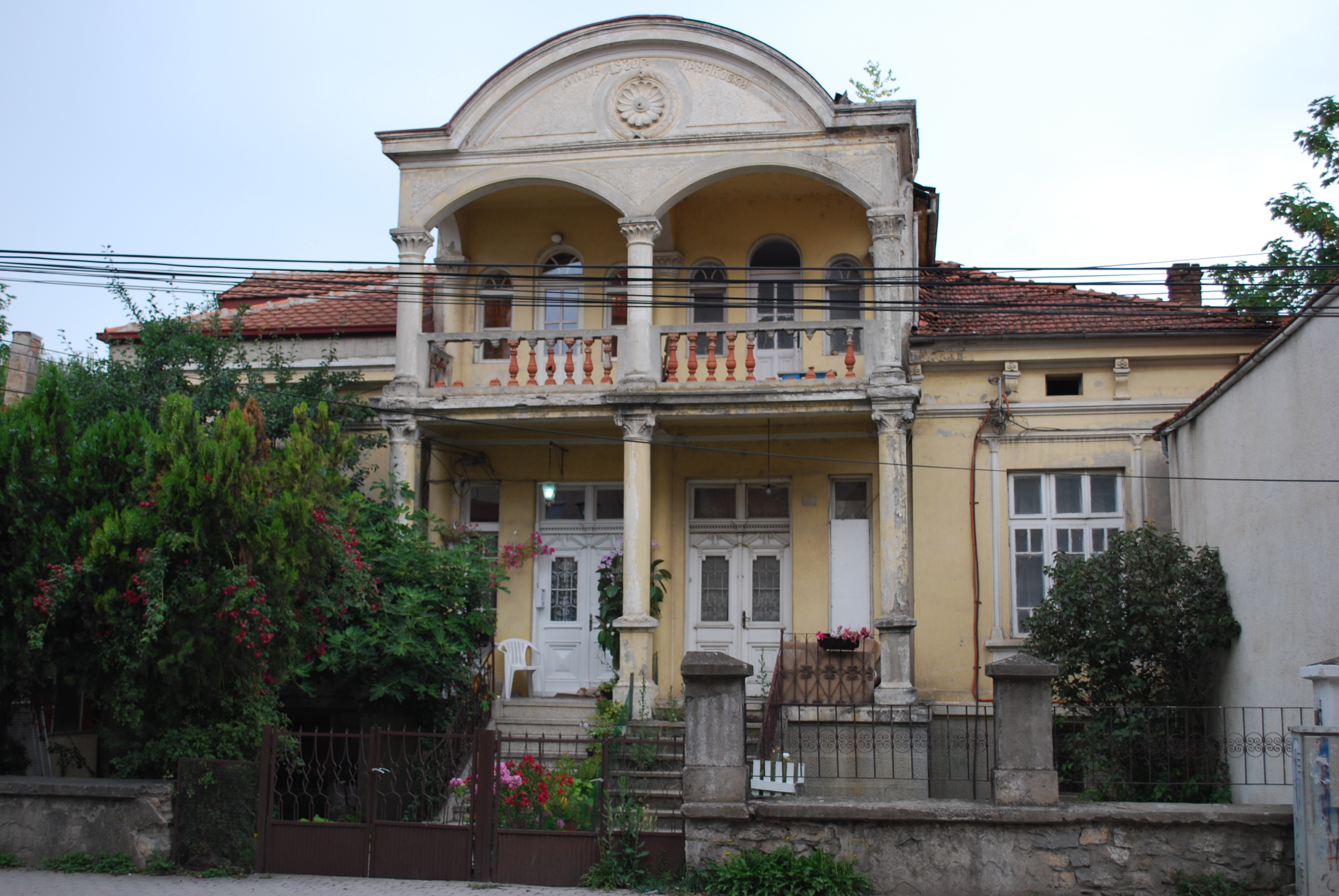 House in Ohrid, Macedonia